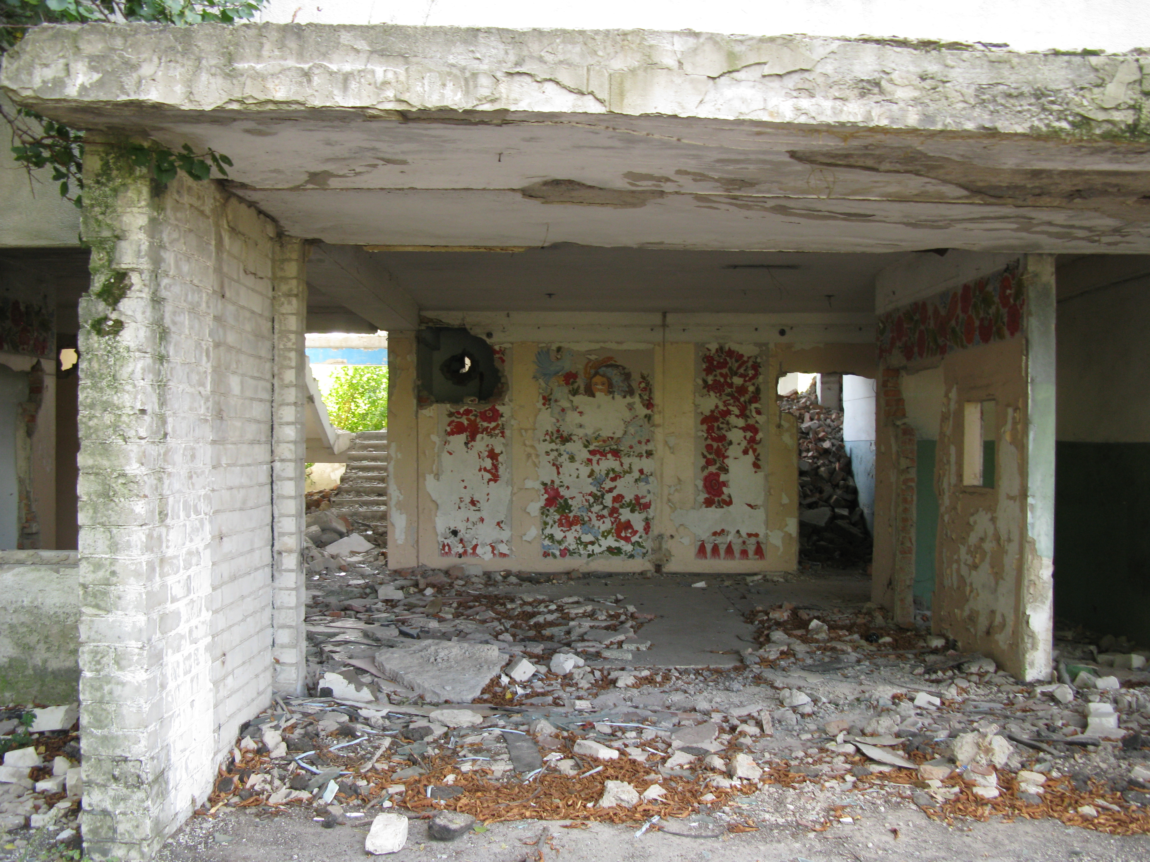 Central entrance to the ruins of Petrykivka Painting Factory